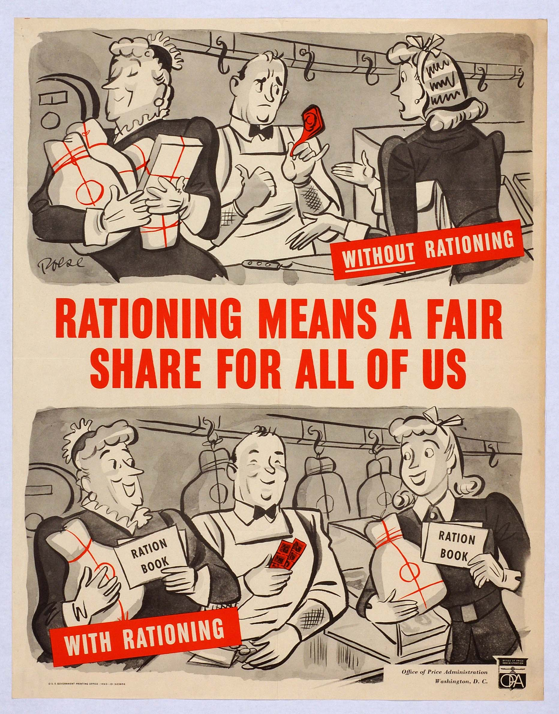 Poster. (Above) Image of one woman cheated of her share of canned goods as another woman leaves the shop with a box of six cans. (Below) Image of well-stocked shelves with a merchant selling each woman one can.